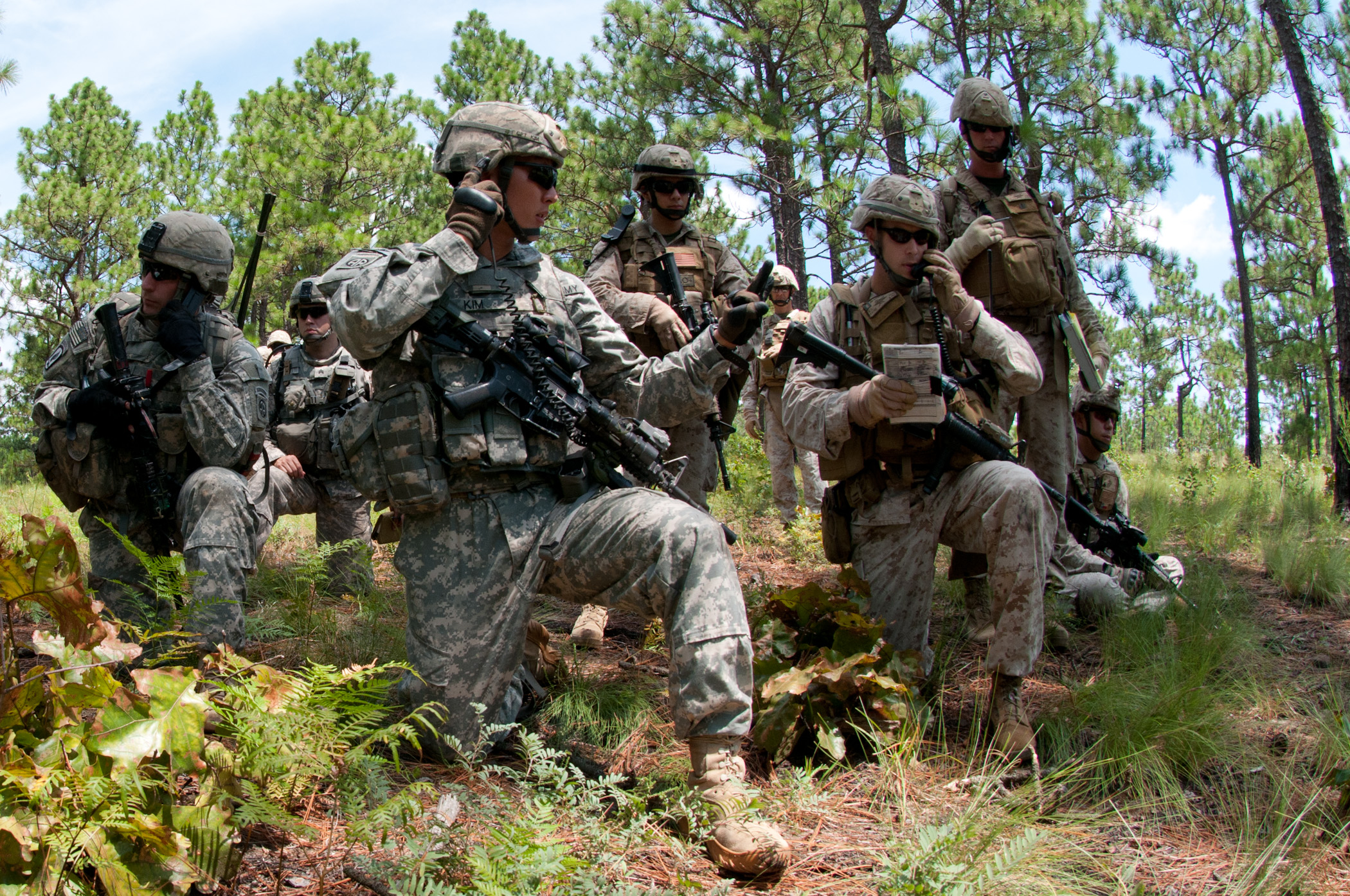 Marines with 1st Brigade Platoon, 2nd Air Naval Gunfire Liaison Company, 2nd Marine Expeditionary Force, control air assets alongside Army soldiers with 1st Brigade Combat Team, 82nd Airborne Division, during the Walk-and-Shoot training exercise aboard Army Base Fort Bragg, N.C., Aug. 16. Despite the difficulties of learning to overcome the differences between the 82nd Airborne and themselves, the Marines were able to gain a lot of knowledge about how the Army operates as well as showcase ANGLICO’s capabilities with air and artillery support.